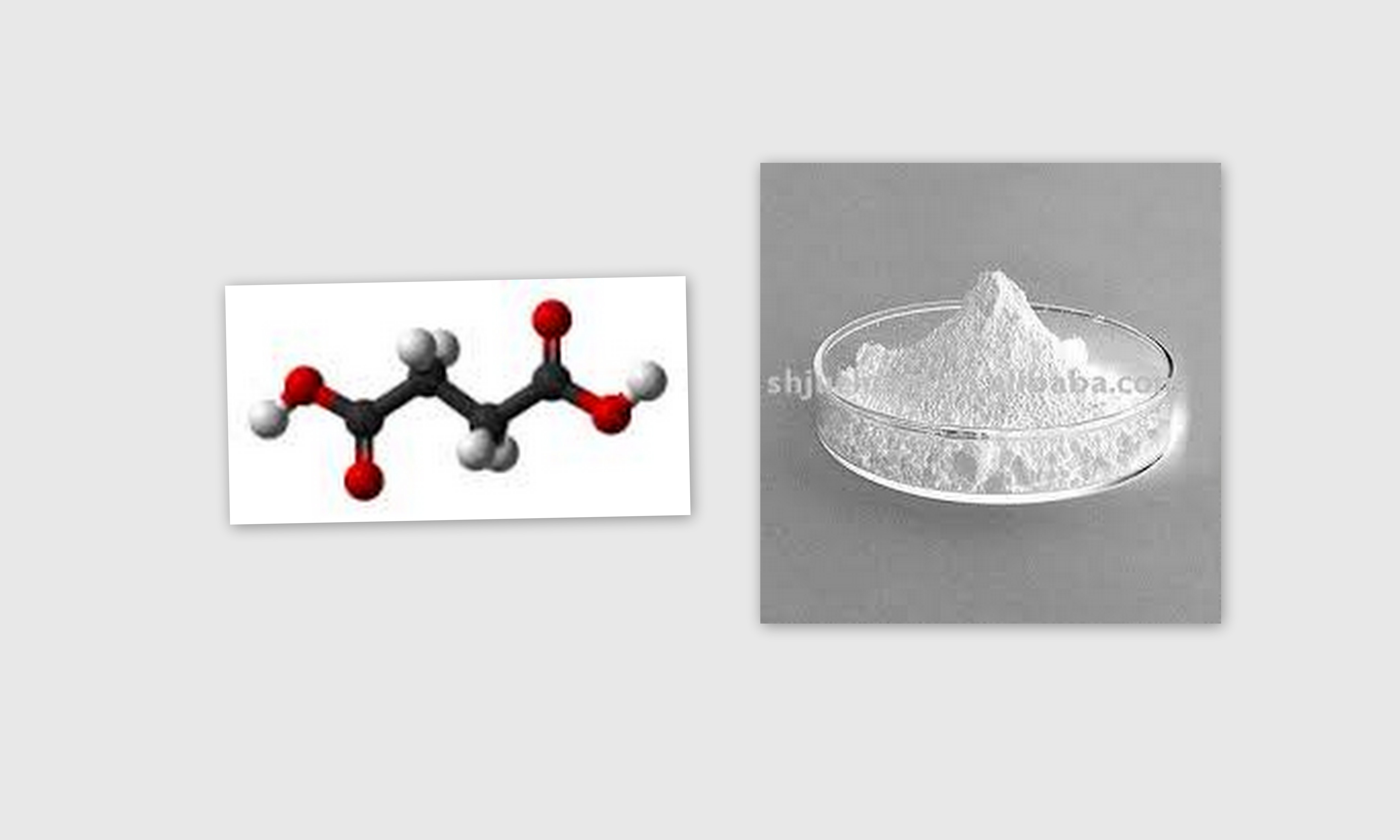 structure of succinic acid